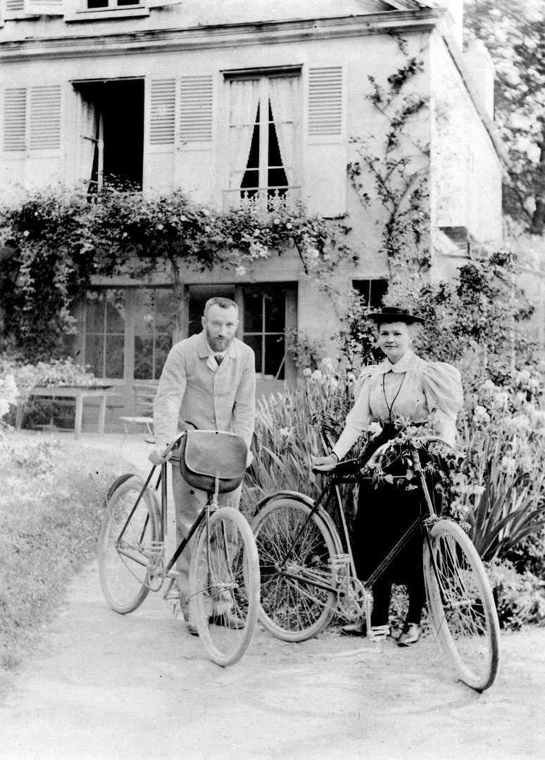 Pierre and Marie Curie with the bicycles on which, during their early married life, the roamed the roads of France together